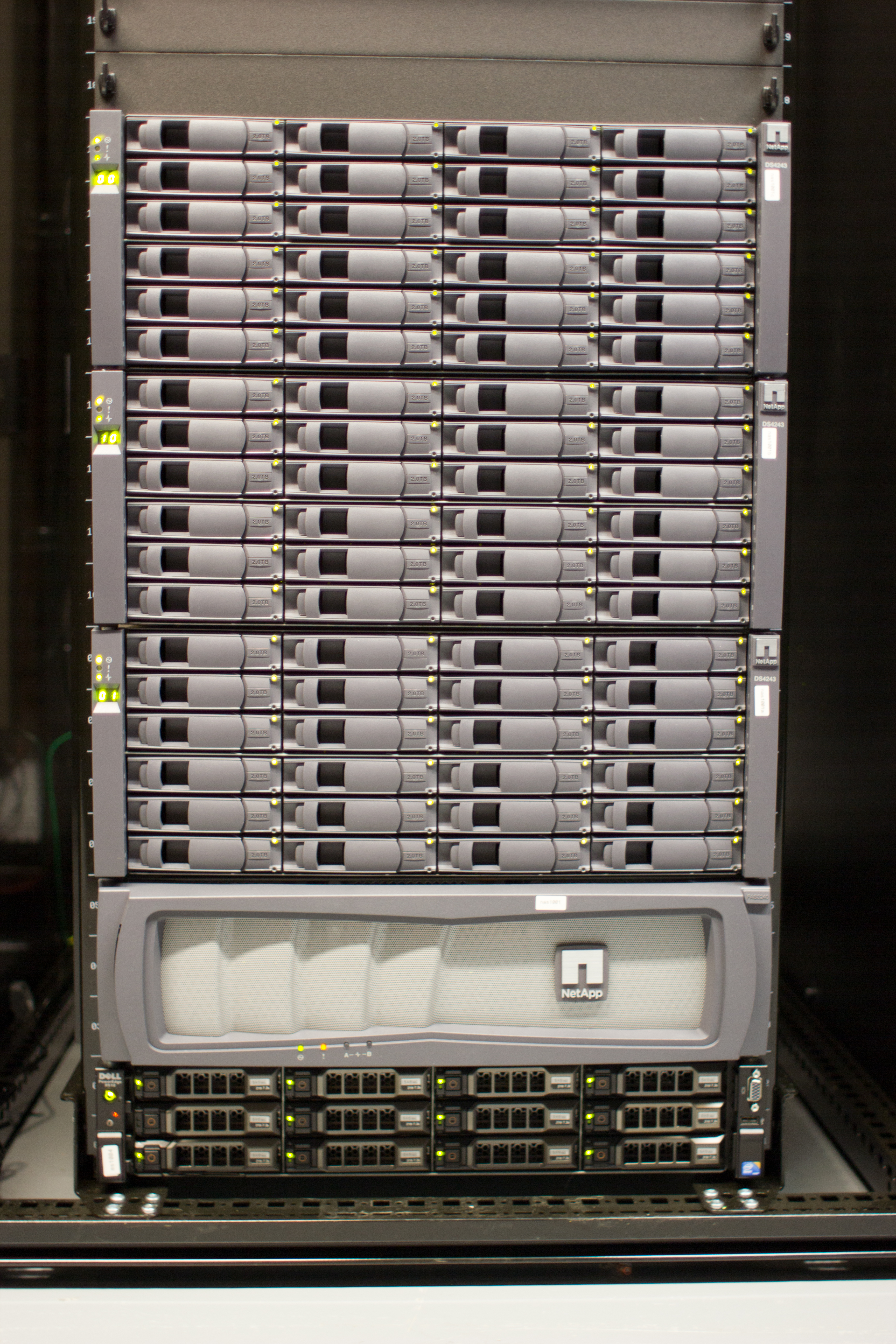 Wikimedia Foundation Servers. NetApp filer FAS3240-R5 with 3 x DS4243 disk shelves